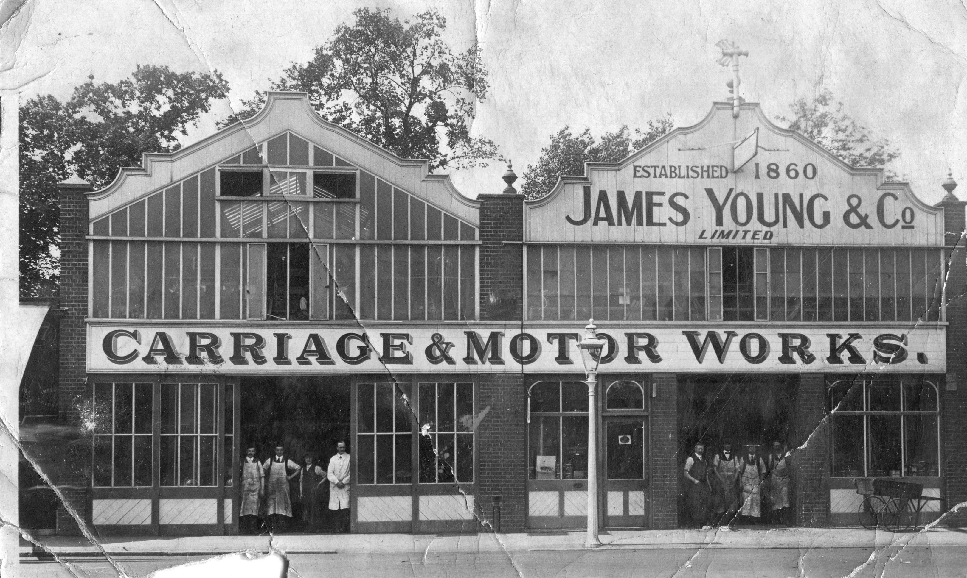 The Bromley in Kent works, of James Young & Co. Ltd. A Carriage and car coachwork builder. The photograph was probably taken just prior to the first world war.